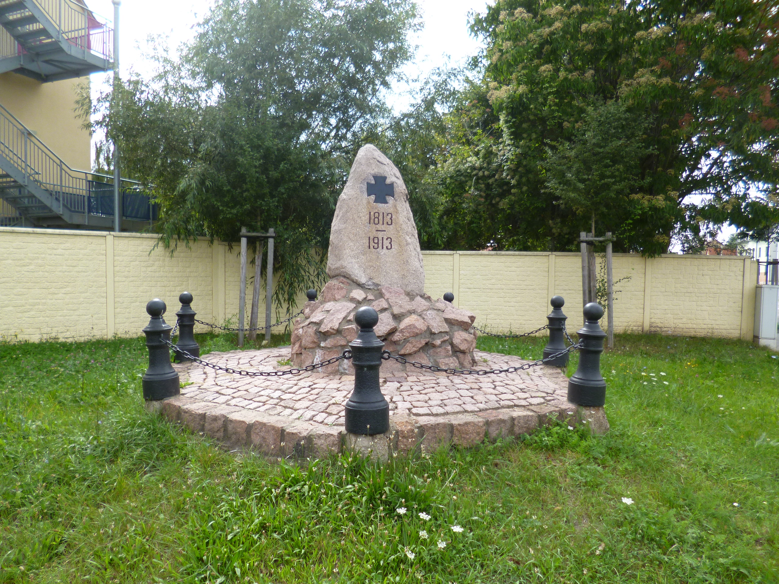 Memorial stone to the battle against Napoleon on 18 october 1813, erected 1913, Delitzscher Strasse in Büschdorf, Halle (Saale)